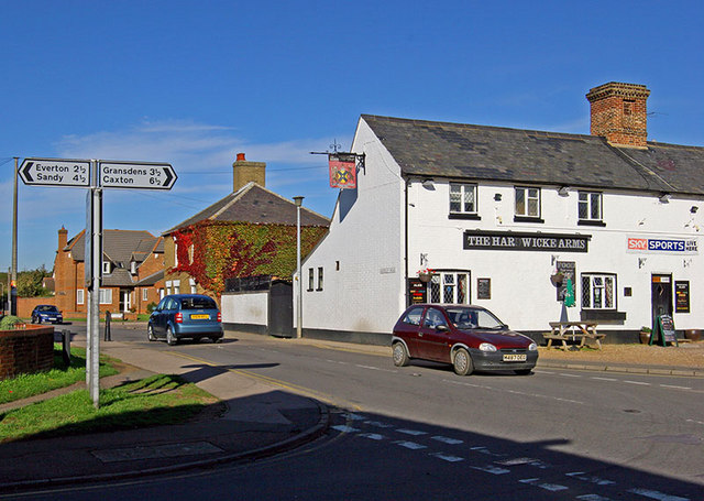 Hardwicke Arms Gamlingay, near to Gamlingay, Cambridgeshire, Great Britain. The Hardwicke Arms Public House located at the junction of Church Street and Waresley Road in Gamlingay